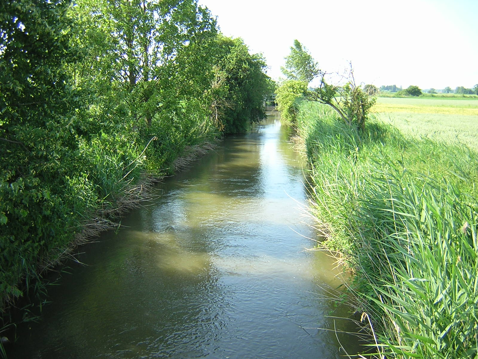 River Friedberger Ach at Thierhaupten, Germany 48°32'03.05" N 10°53'59.02" E